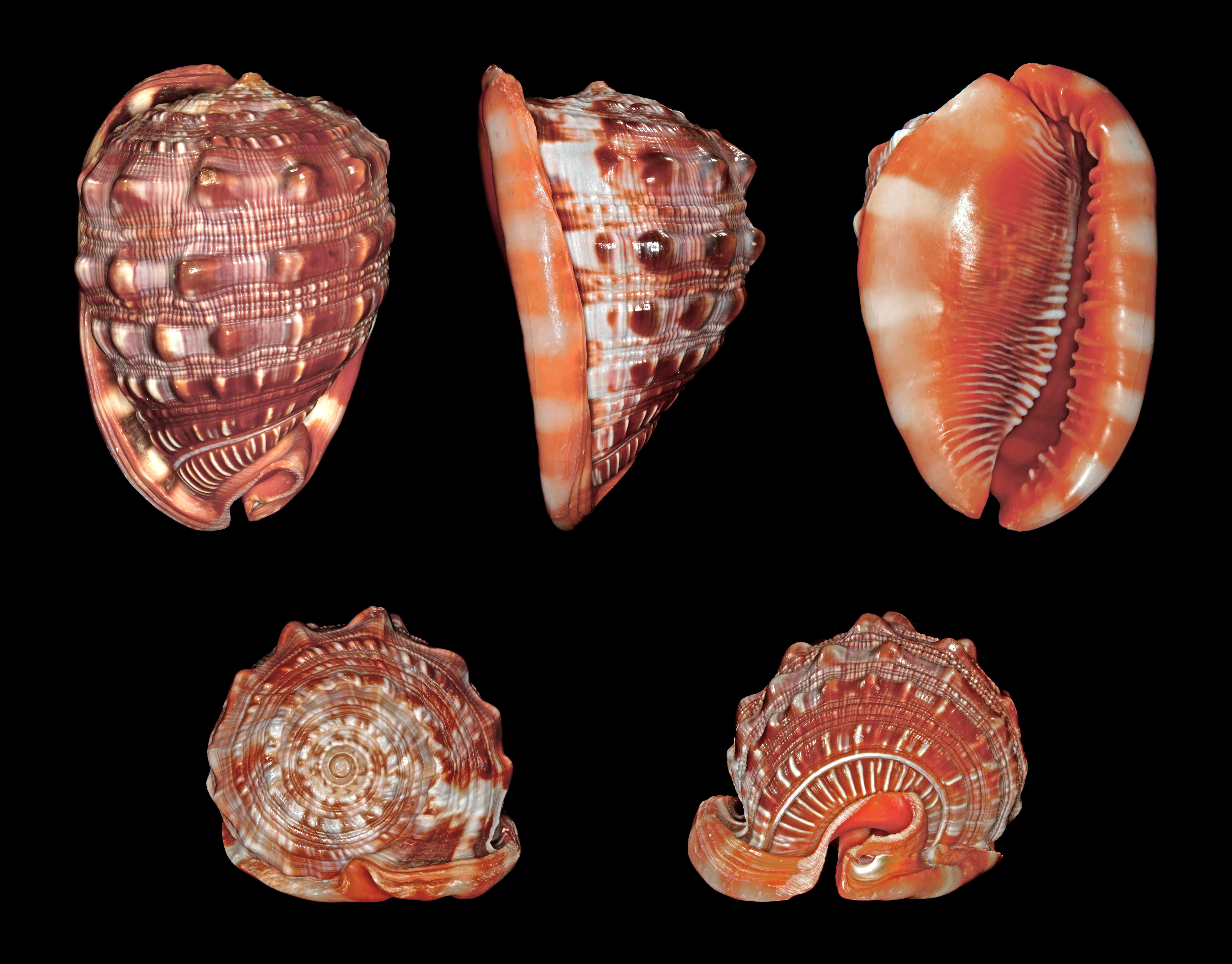 Red Helmet; Length 11 cm; Originating from the Indopacific; Shell of own collection, therefore not geocoded. Dorsal, lateral (right side), ventral, back, and front view.